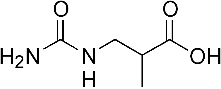 chemical structure of beta-ureidoisobutyric acid